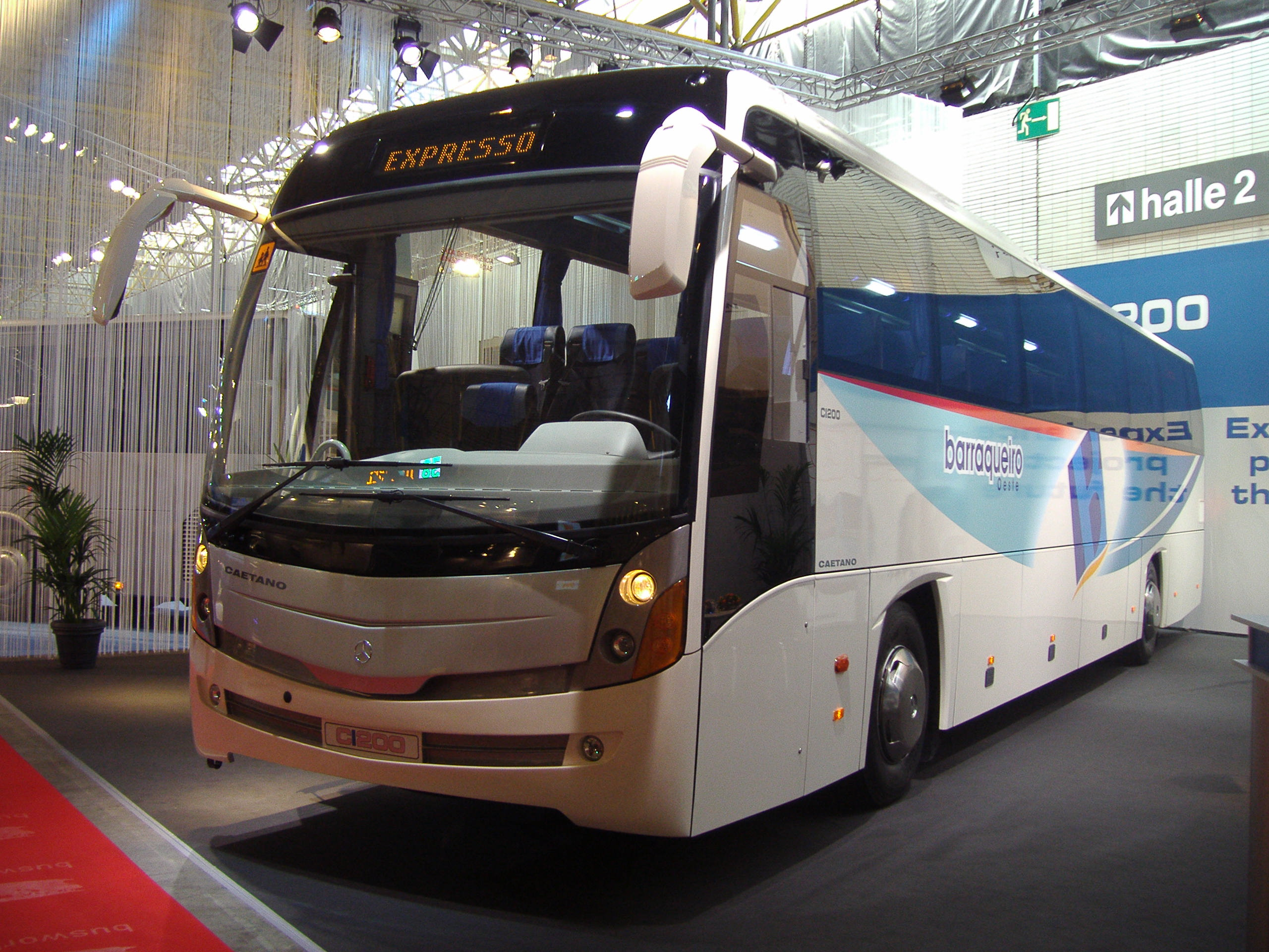 Caetano Intercity CI 200 coach, from portuguese transport company Barraqueiro, at the Busworld 2007 exhibition in Kortrijk, Belgium.